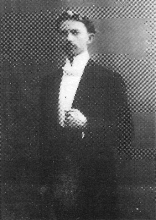 Finnish historian Svante Dahlström (1883-1965) at the conferment of the doctor's degree in 1914.